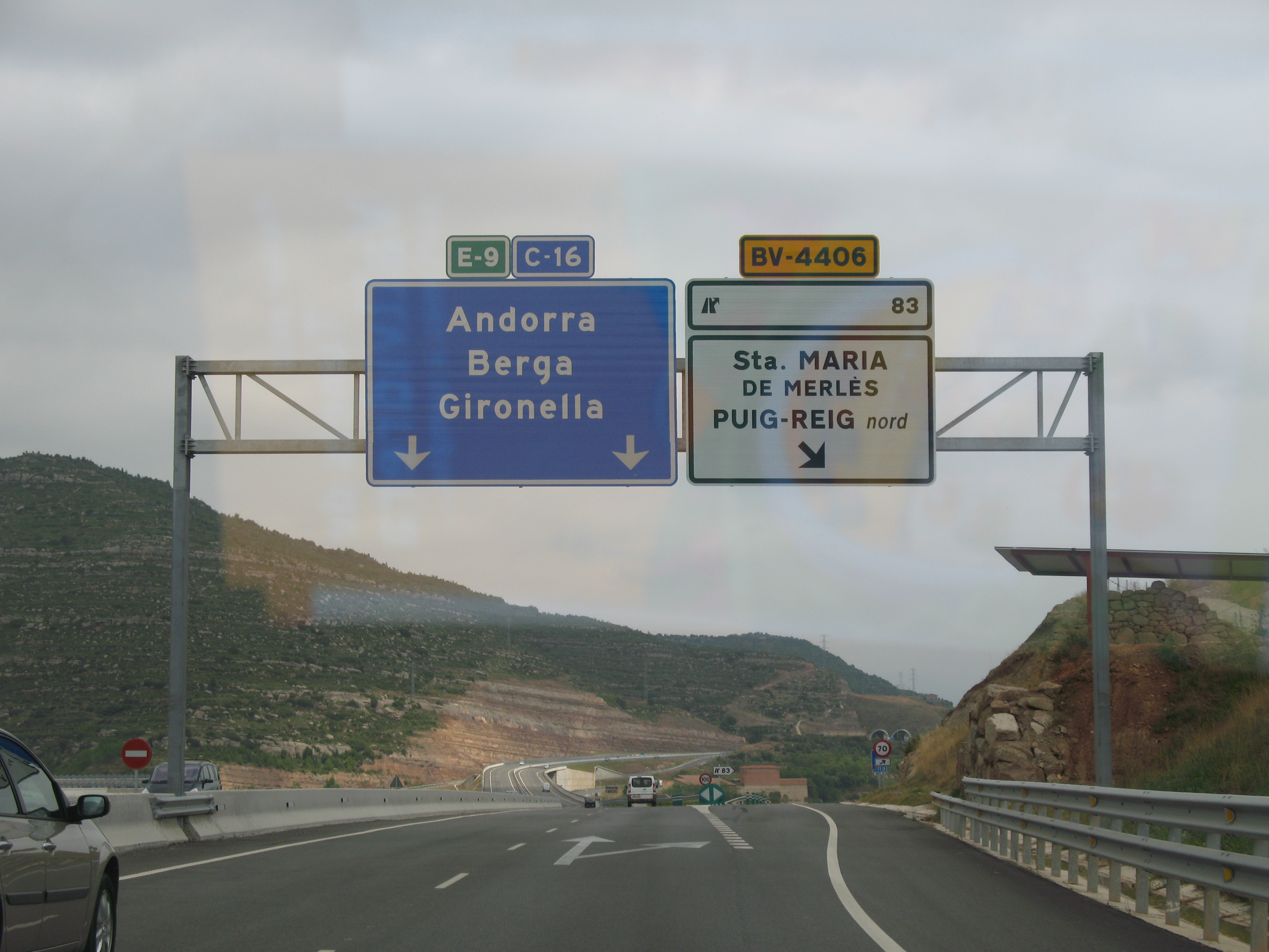 The C-16 expressway at Puig-Reig goings to Andorra.